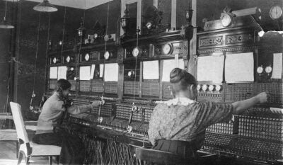 The telephone central of the Red guards of Finland during the attempt at revolution in 1918. Two ladies are connecting telephones.